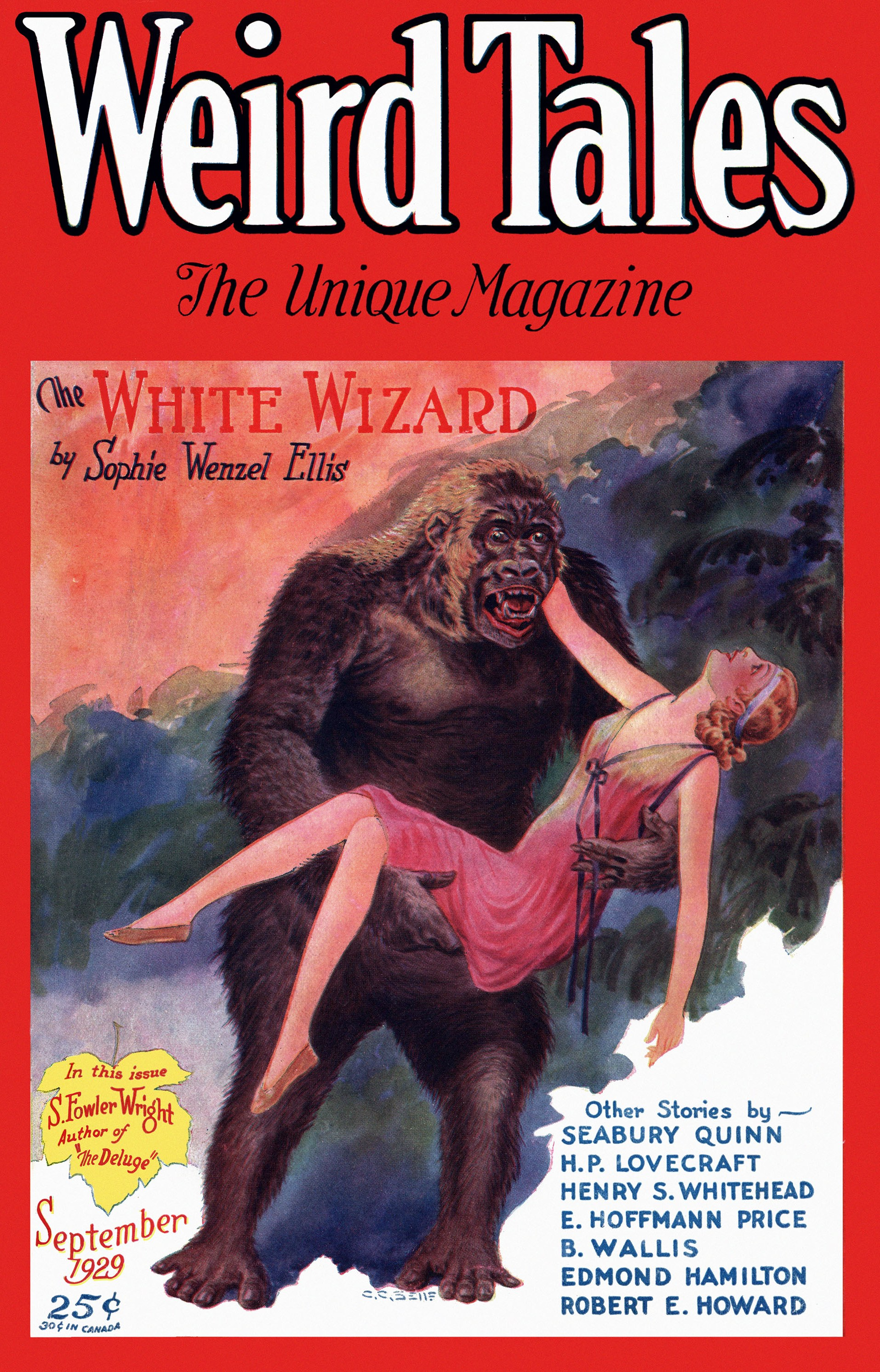 Cover of the pulp magazine Weird Tales (September 1929, vol. 14, no. 3) featuring The White Wizard by Sophie Wenzel Ellis. Cover art by C. C. Senf.